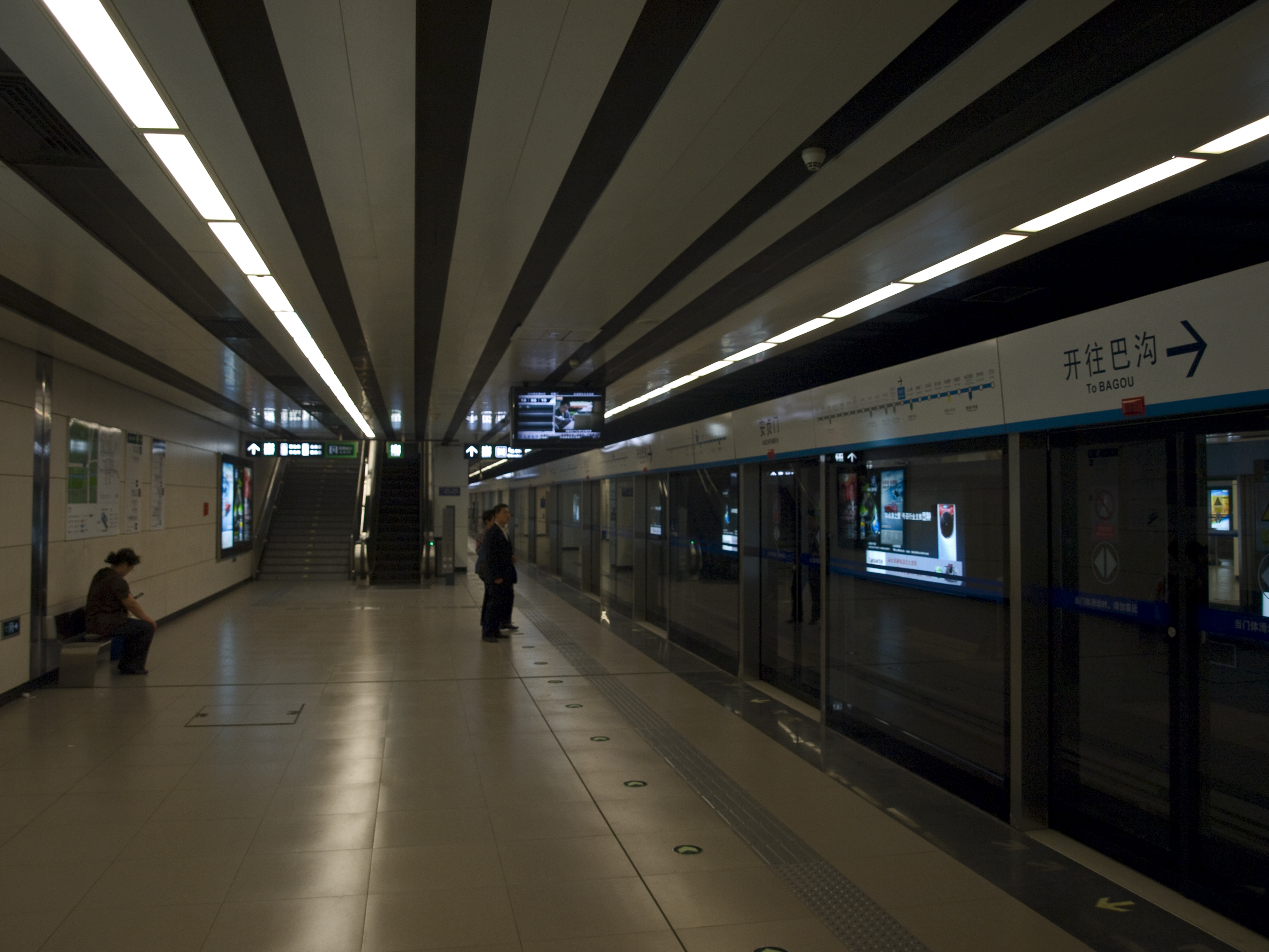 Anzhenmen station, Beijing Subway